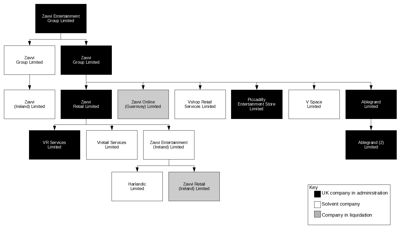 The hierarchical layout of the Zavvi Group of companies (as of Feb 08)